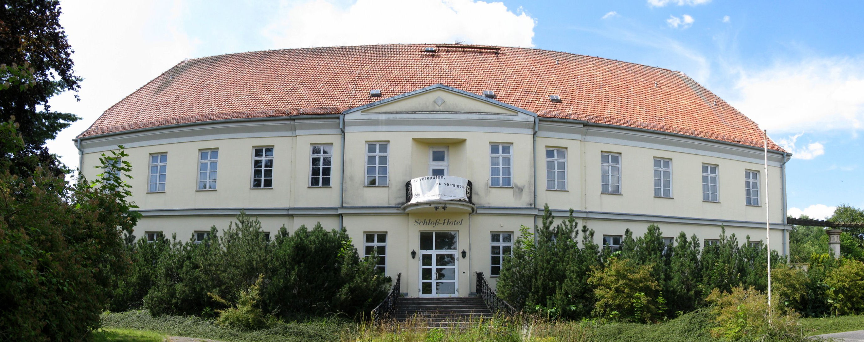 Gutshaus in Fincken, disctrict Mecklenburgische Seenplatte, Mecklenburg-Vorpommern, Germany